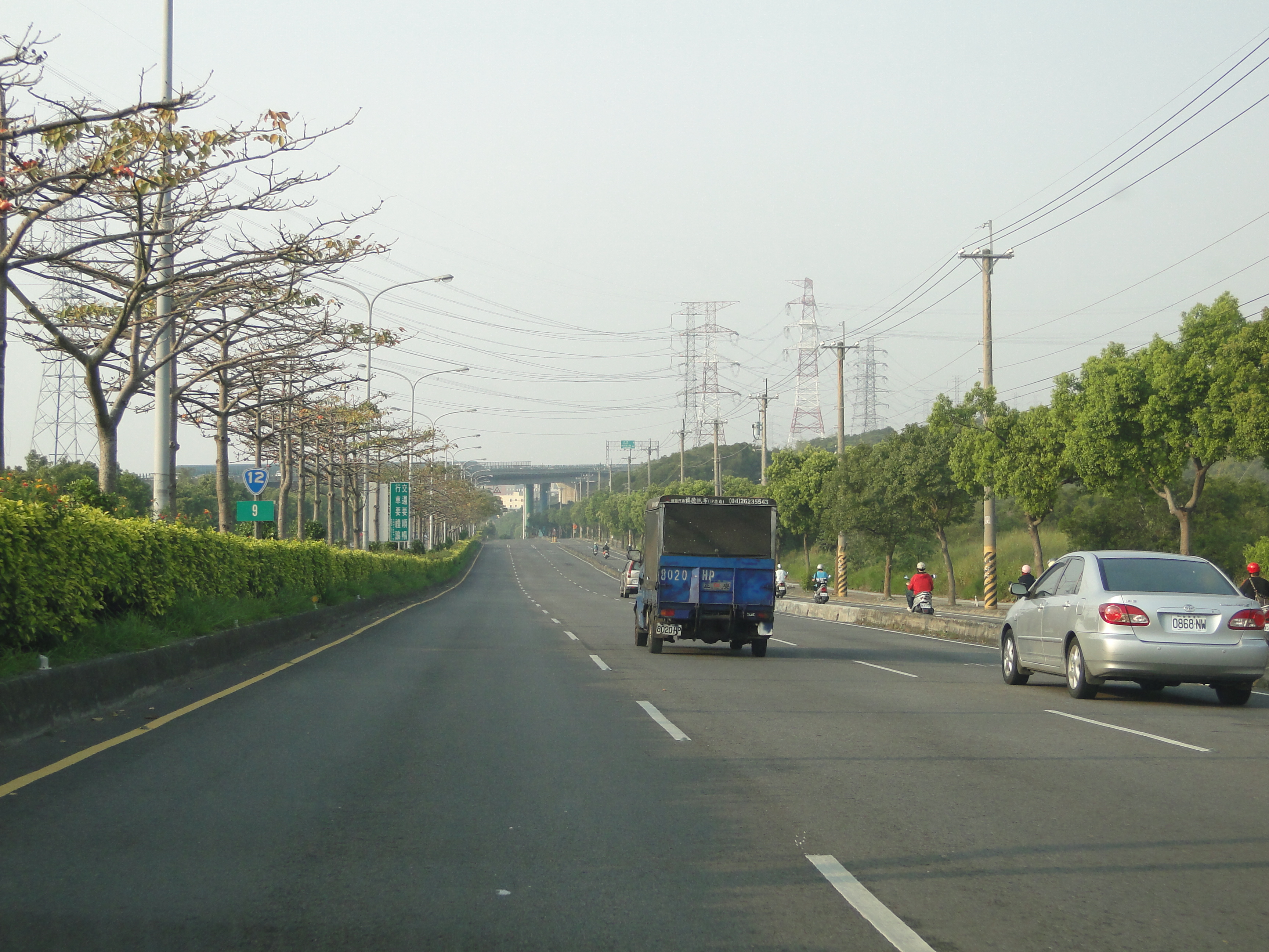 Taiwan Provincial Highway 12 is located in Shalu Township, Taichung County, the section of elevated road in front of is Taiwan Freeway No.3 中文（台灣）: 台12線省道位於台中縣沙鹿鎮之路段，前方高架道路為中二高。